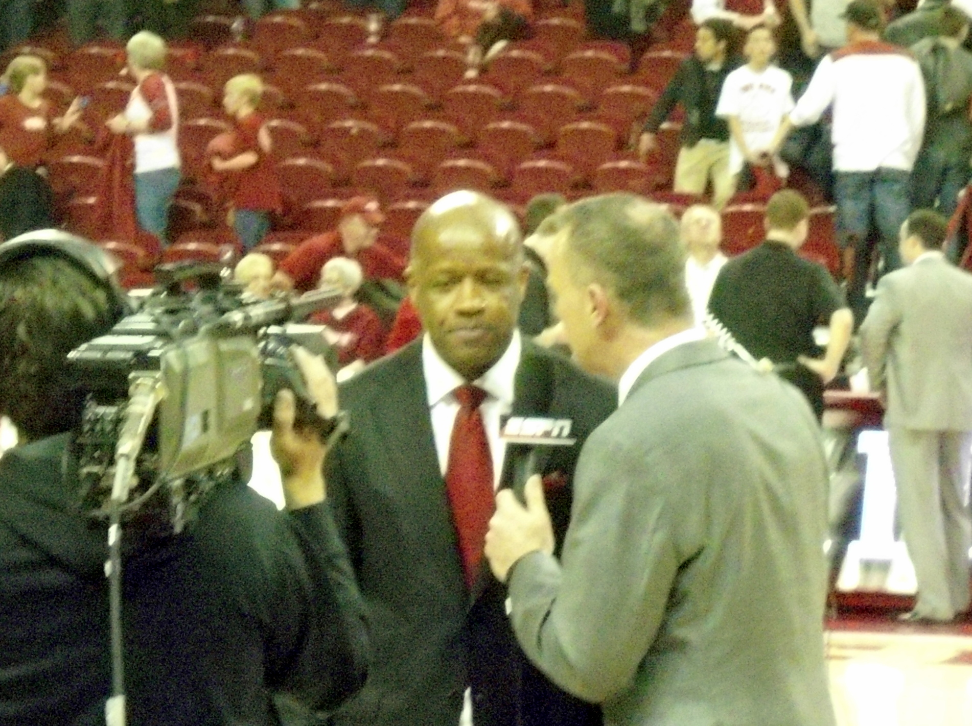 Arkansas Razorbacks head coach Mike Anderson is interviewed by Jimmy Dykes of ESPN following the Razorbacks' win over Missouri